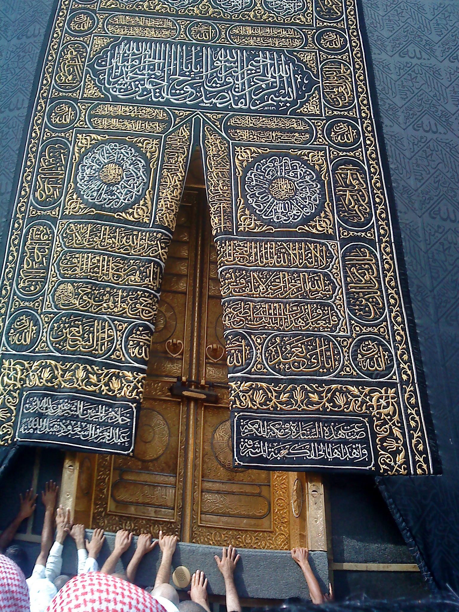 Gate of Ka-bah